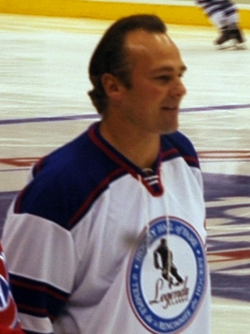 Dale Hawerchuk played with the All-Star Legends 2008 in Toronto